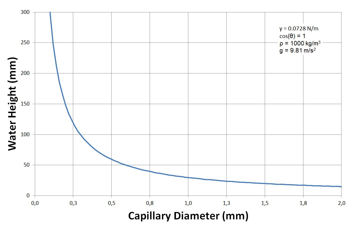 Water height due to capillary force in a glass tube - Calculated with gamma = 0.0728 N/M, cos(theta) = 1.0, density = 1000 kg/m3 and g = 9.81 m/s2